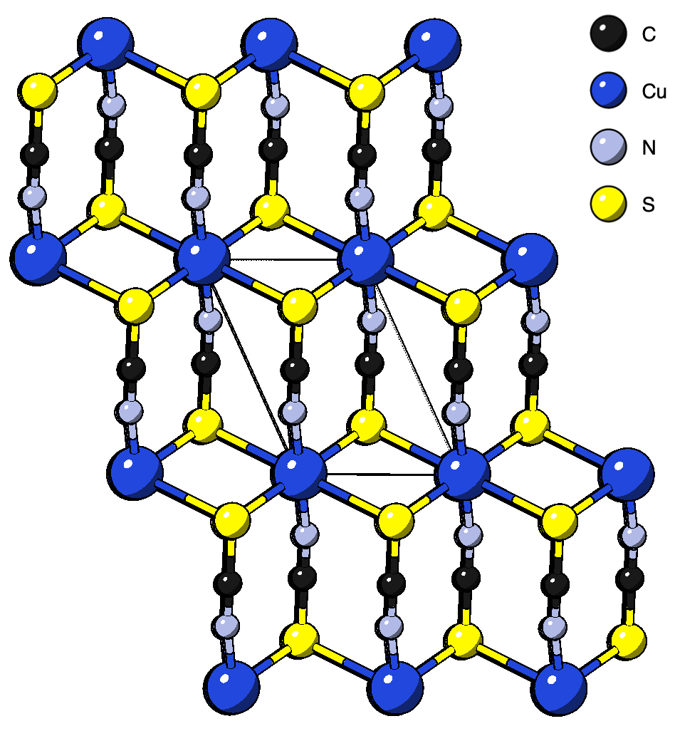 Crystal structure of copper(II) thiocyanate viewed along the crystallographic c axis.